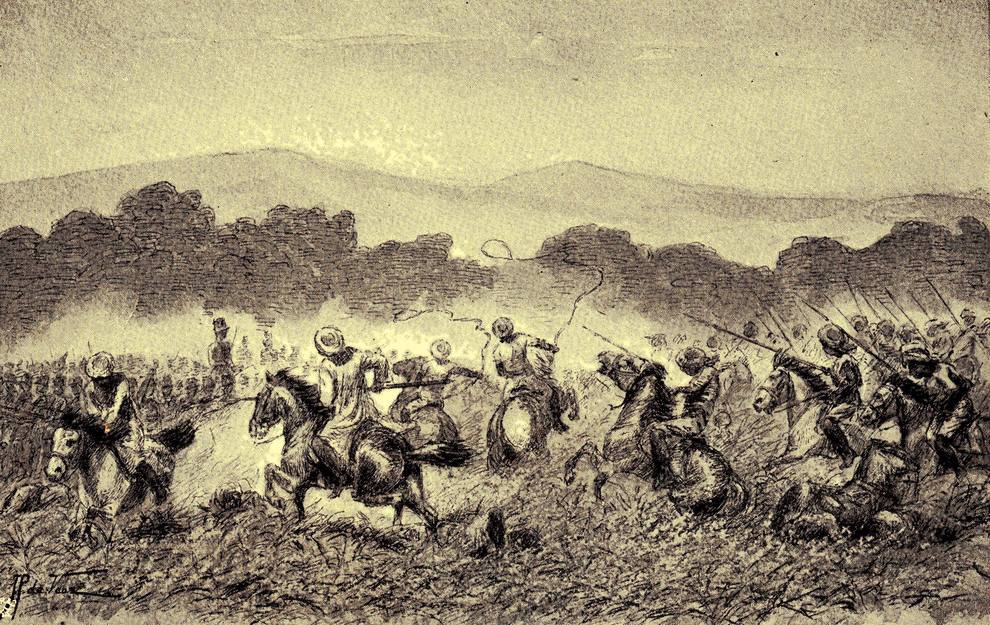 Aanval te Boni